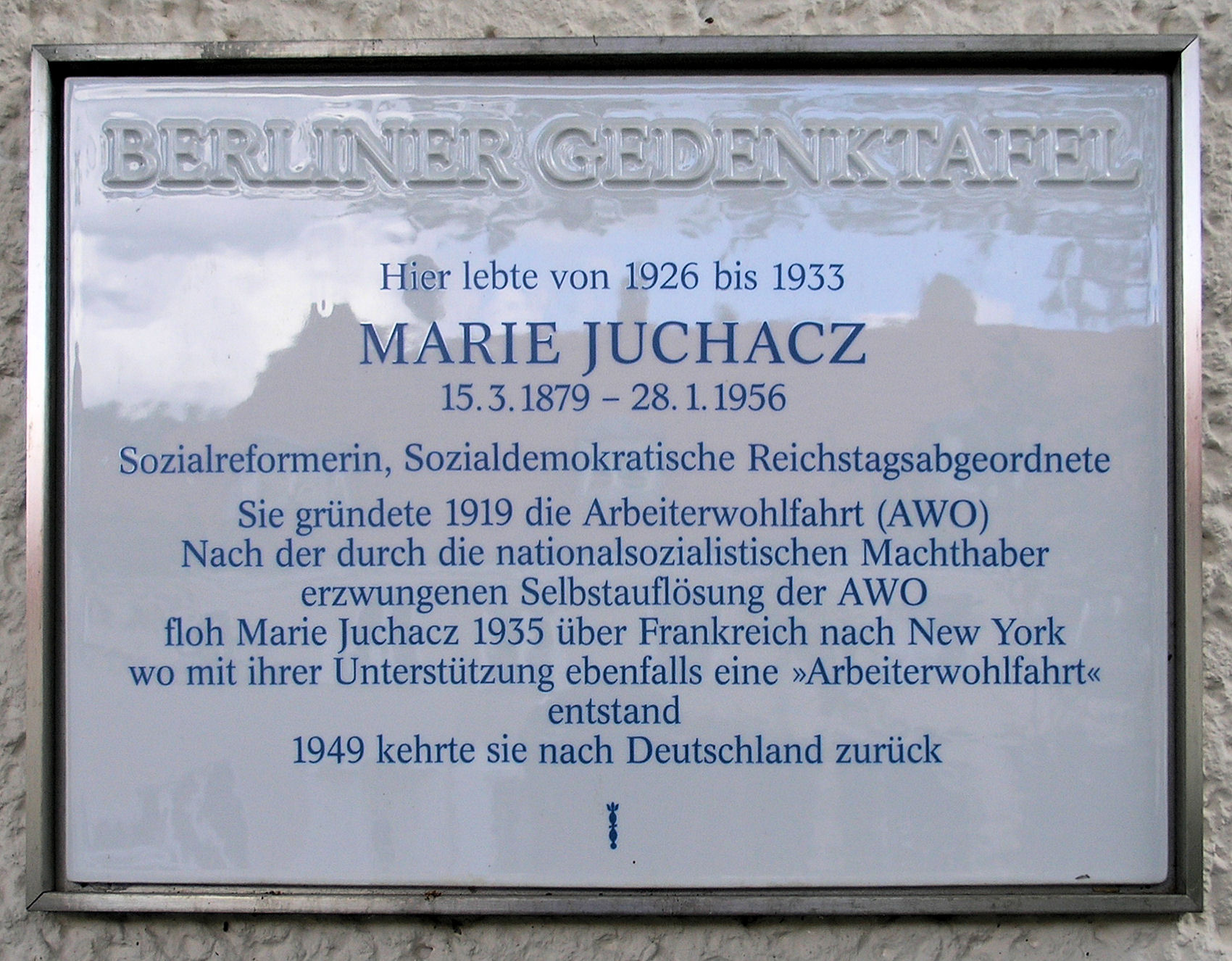 Berlin memorial plaque, Marie Juchacz, Schmausstraße 83, Berlin-Köpenick, Germany